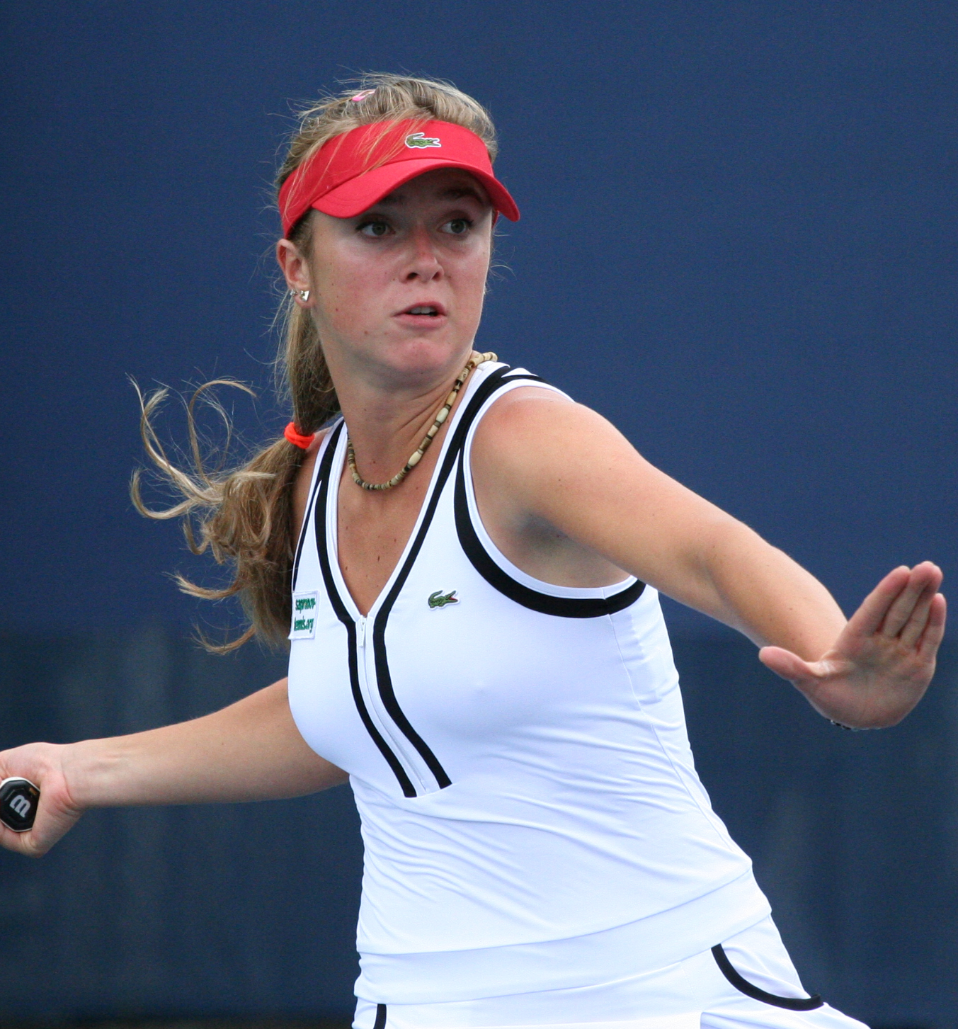 U.S. Open Juniors Sept. 9, 2010